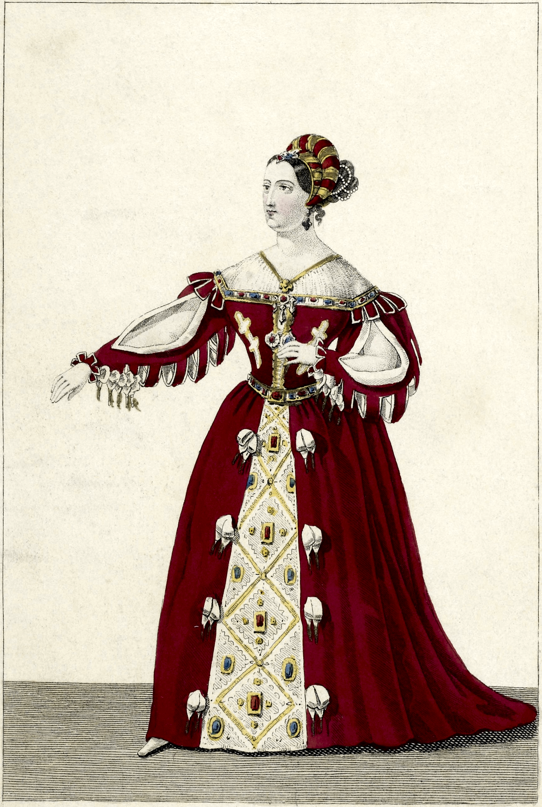 Mademoiselle George (1787–1867) as Mary Tudor in Mary Tudor.